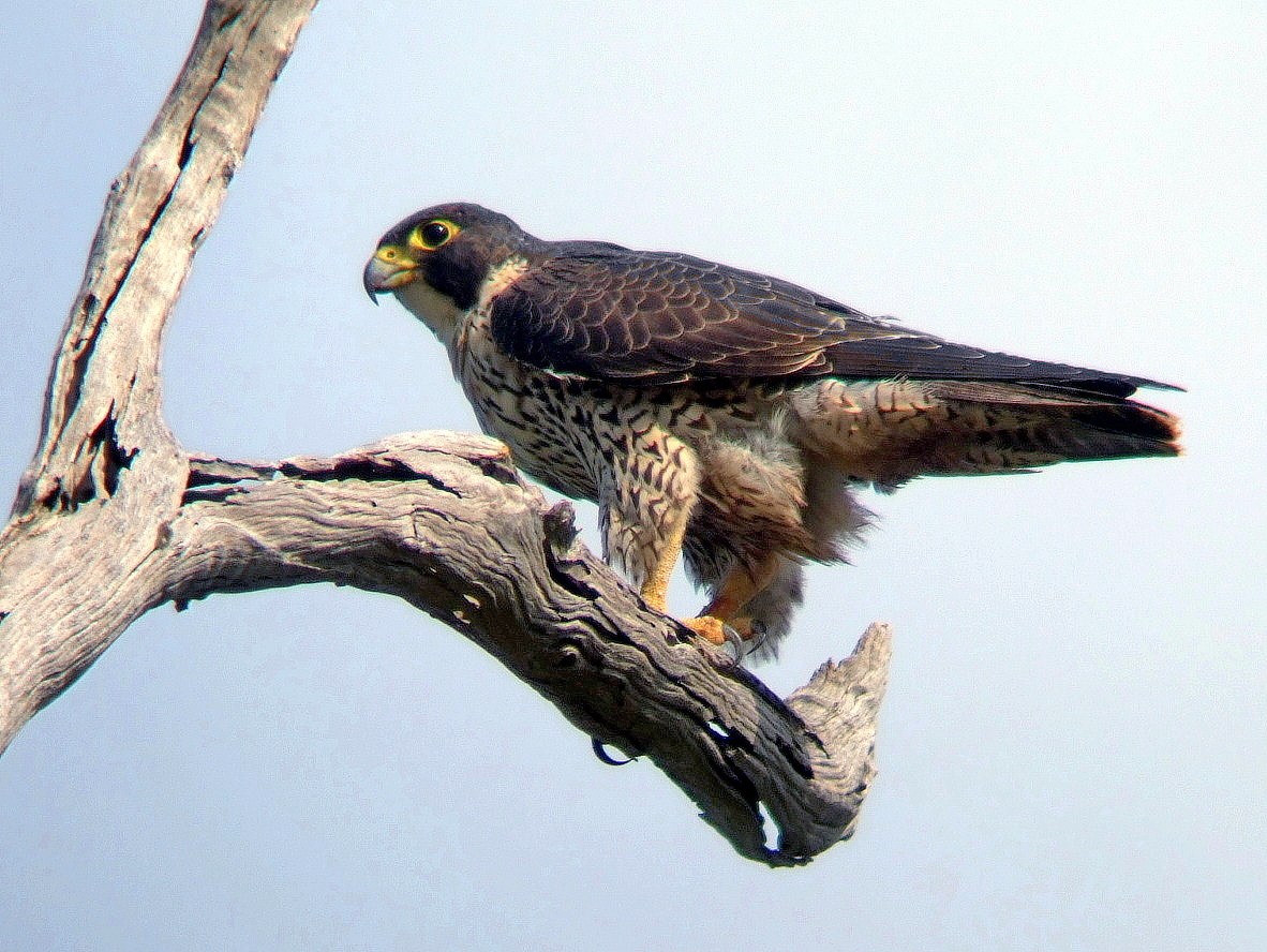 Peregrine Falcon (Falco peregrinus macropus) Kobble Creek, SE Queensland, Australia